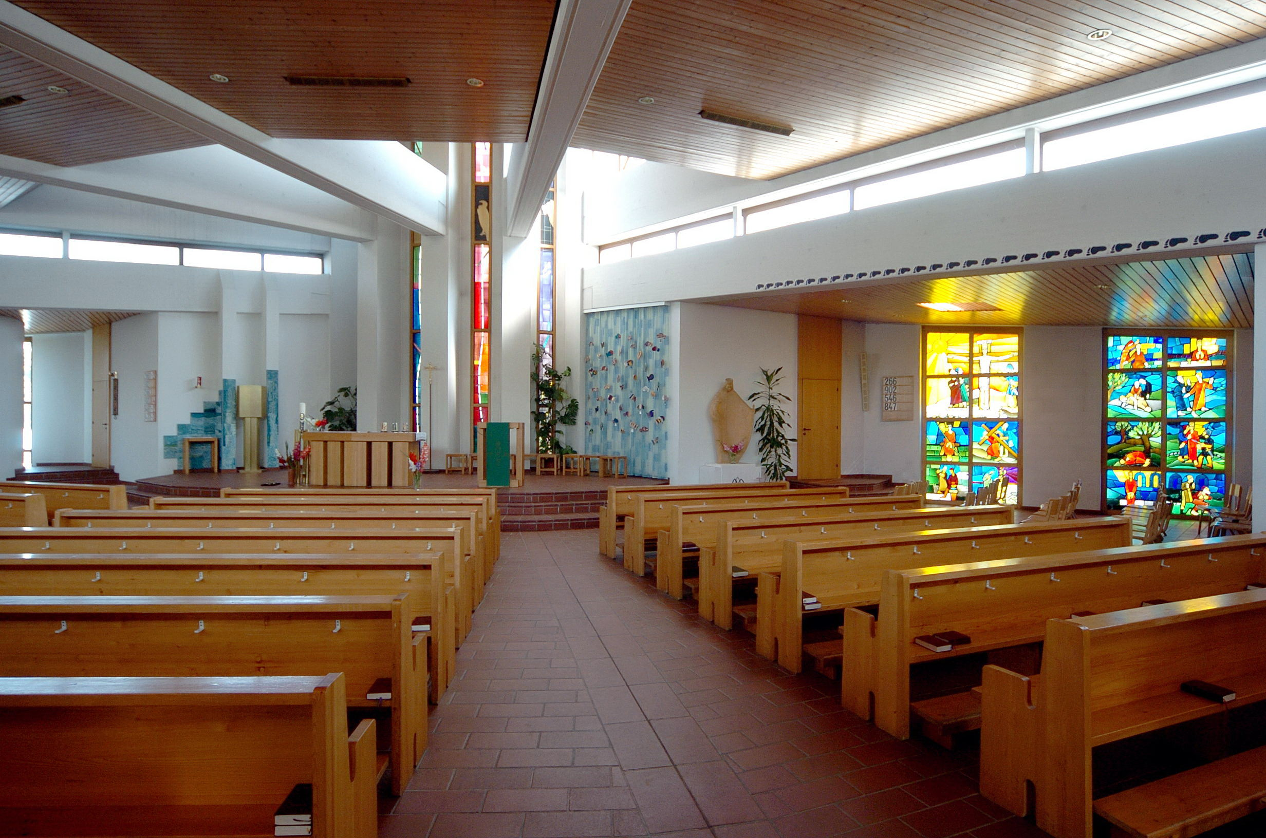 Interior of Don Bosco church church in the 12th district "Saint Martin" of Klagenfurt, Carinthia, Austria